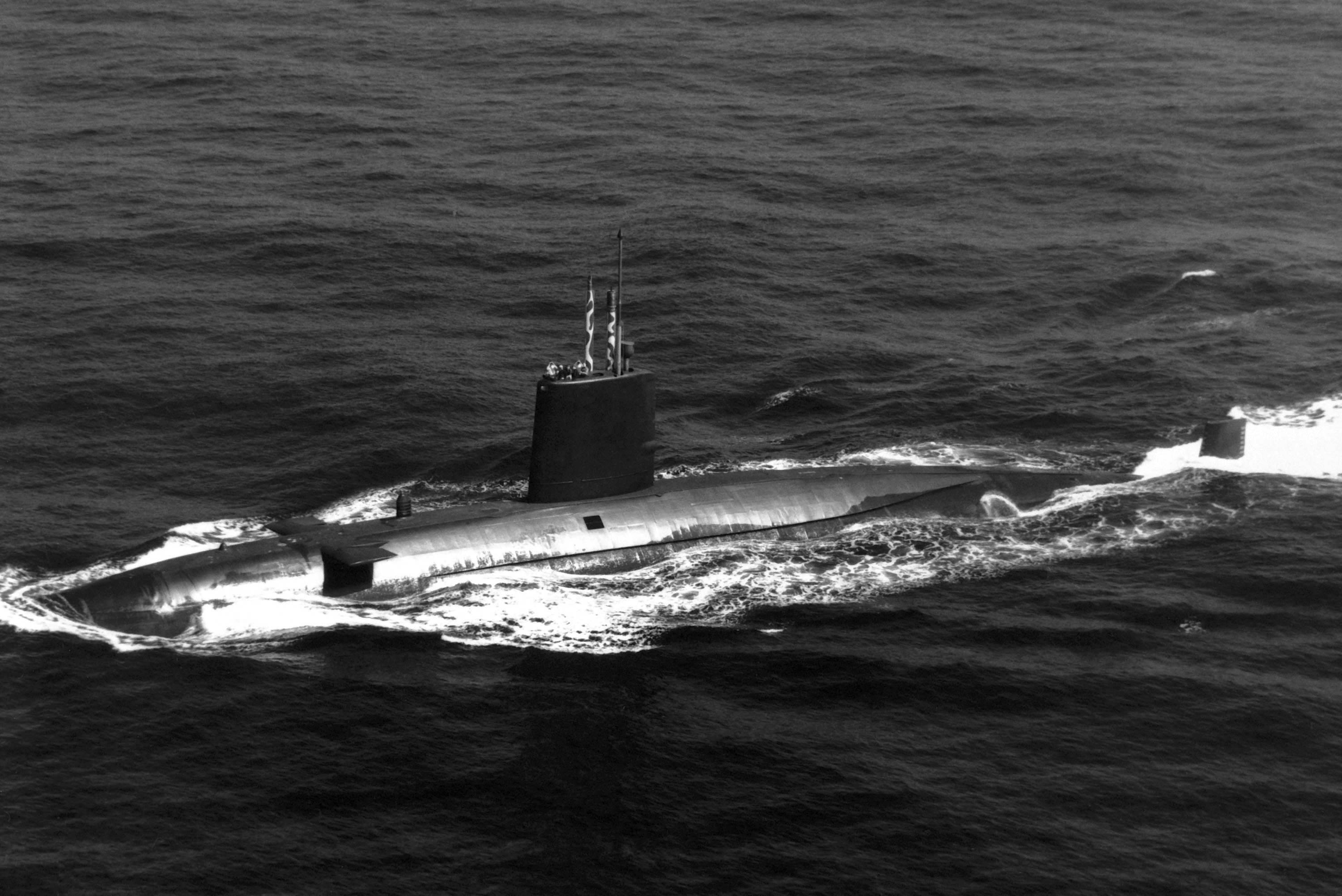 A British Valiant-class nuclear-powered attack submarine underway on 14 May 1986.